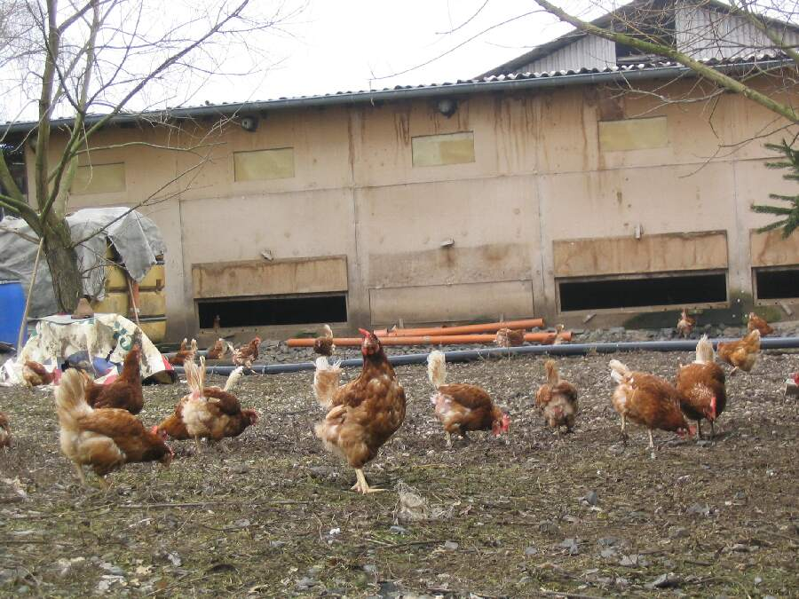 chickens in free-range husbandry